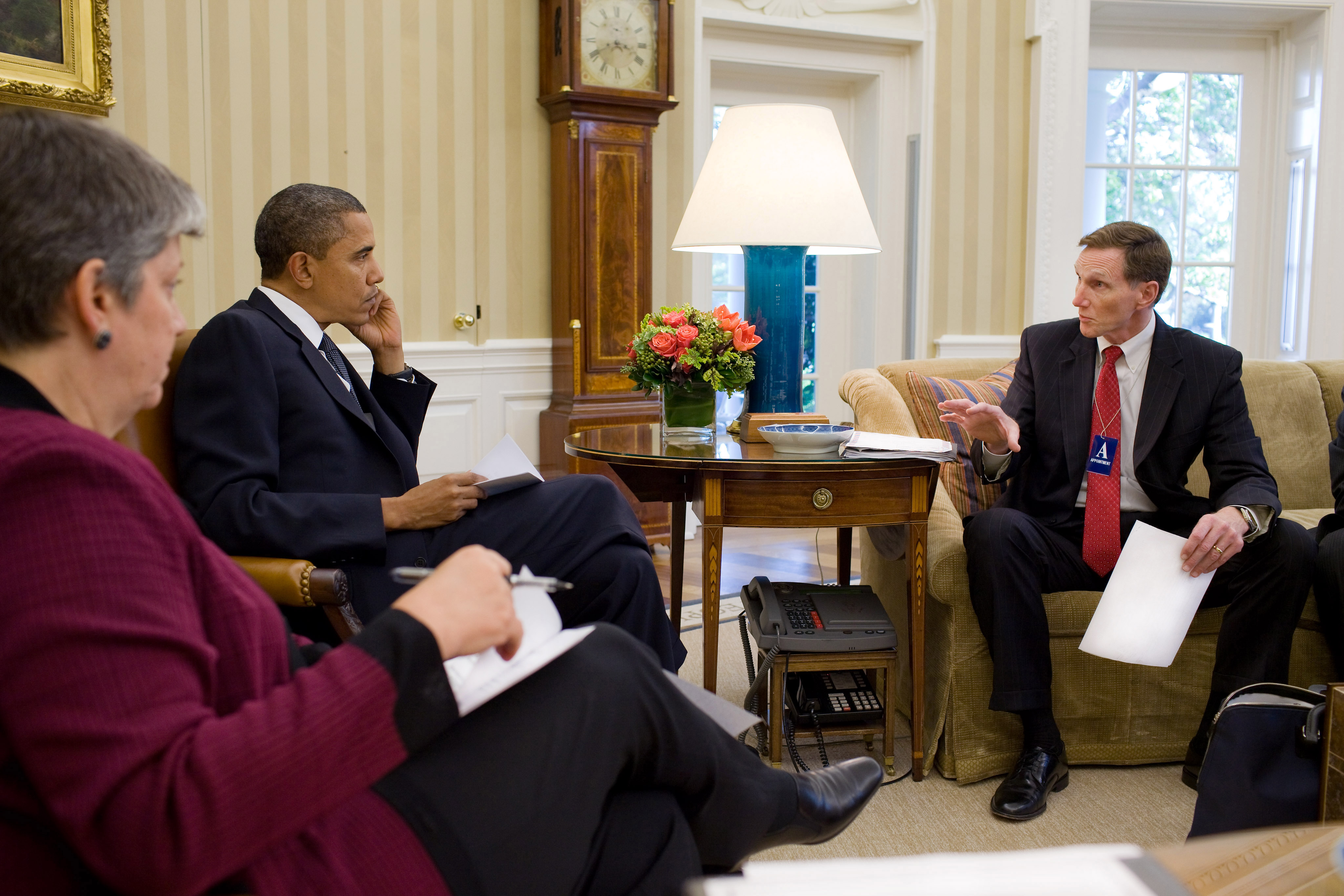 President Barack Obama meets with Homeland Security Secretary Janet Napolitano and Transportation Security Administration (TSA) Administrator John S. Pistole, right, in the Oval Office to discuss transportation security, Oct. 12, 2010. (Official White House Photo by Pete Souza)